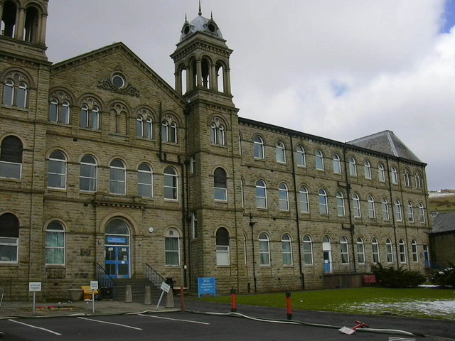 Rossendale General Hospital I understand moves are afoot to have it "listed"